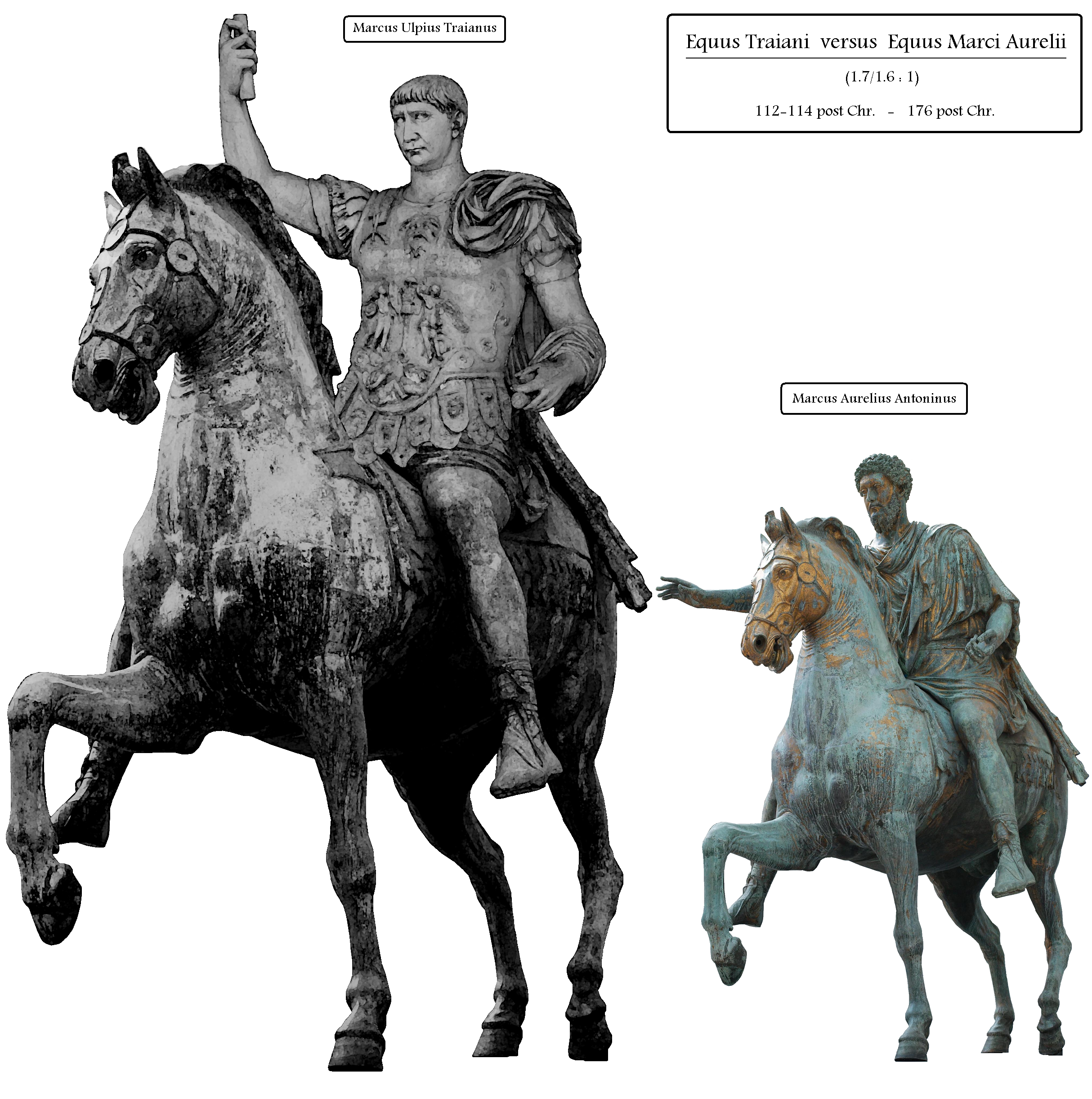 Hypothetical relation between the equestrian statue of Marcus Aurelius and Trajan